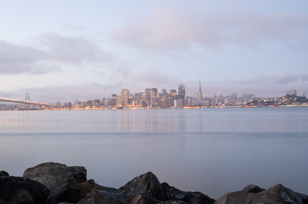 San Francisco Skyline at Dawn from Treasure Island (2005-01-07). Attribute "Ben Peoples" as photographer.